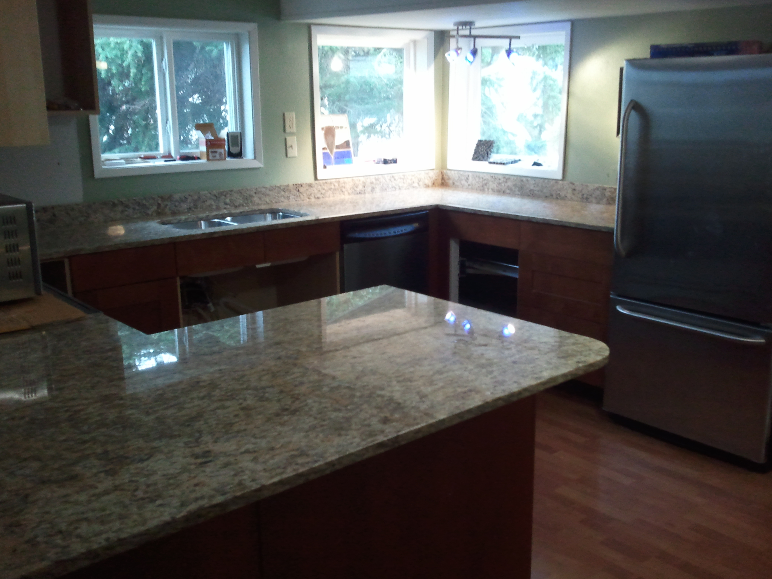 Almost complete. The granite countertops are in.